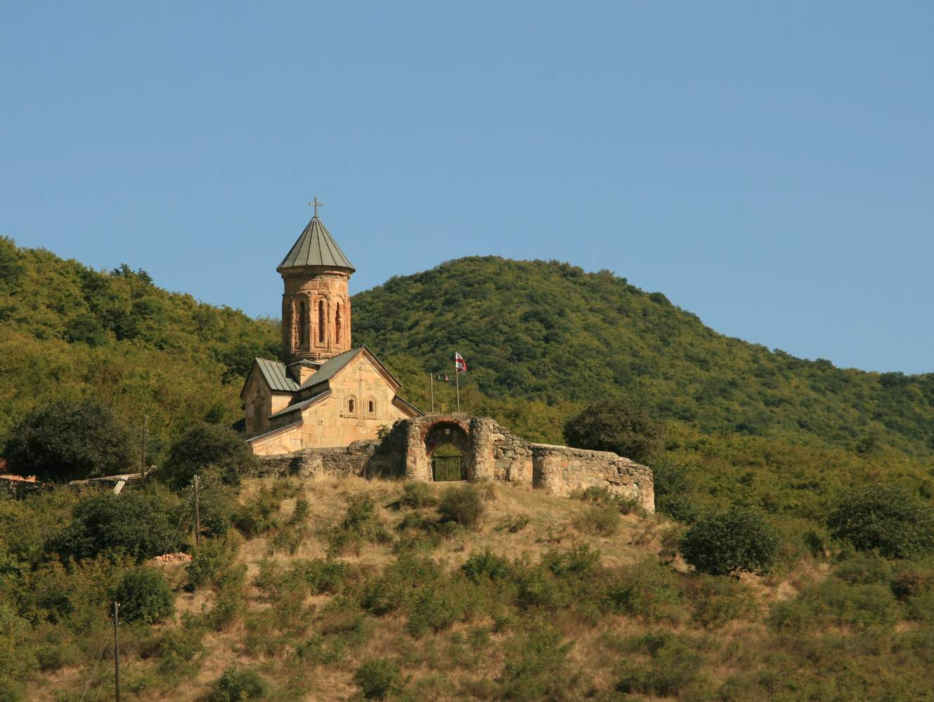 Tsugrugasheni church, Georgia